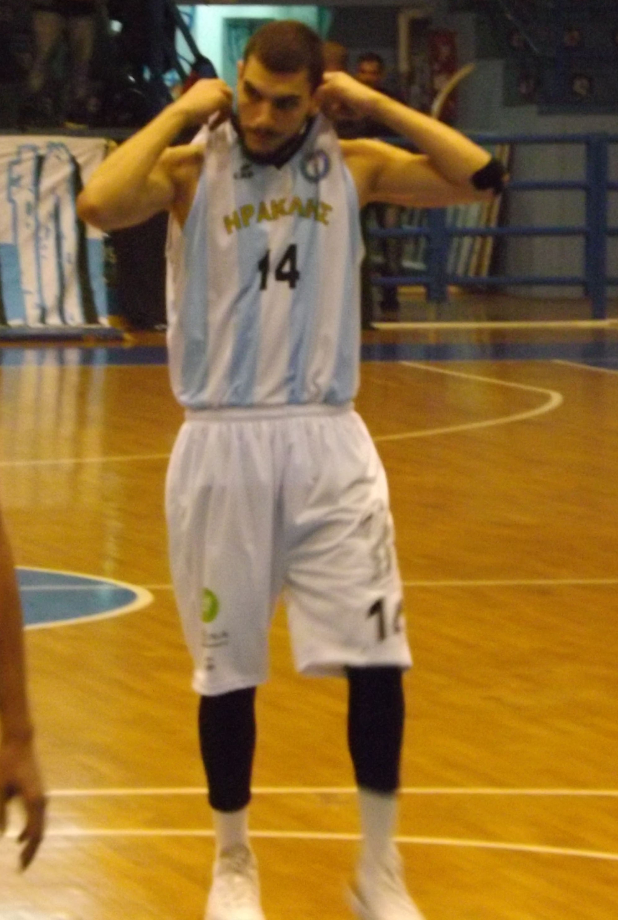 Dimitris Cheilaris playing for Iraklis against GS Larissa on 22 October 2016.